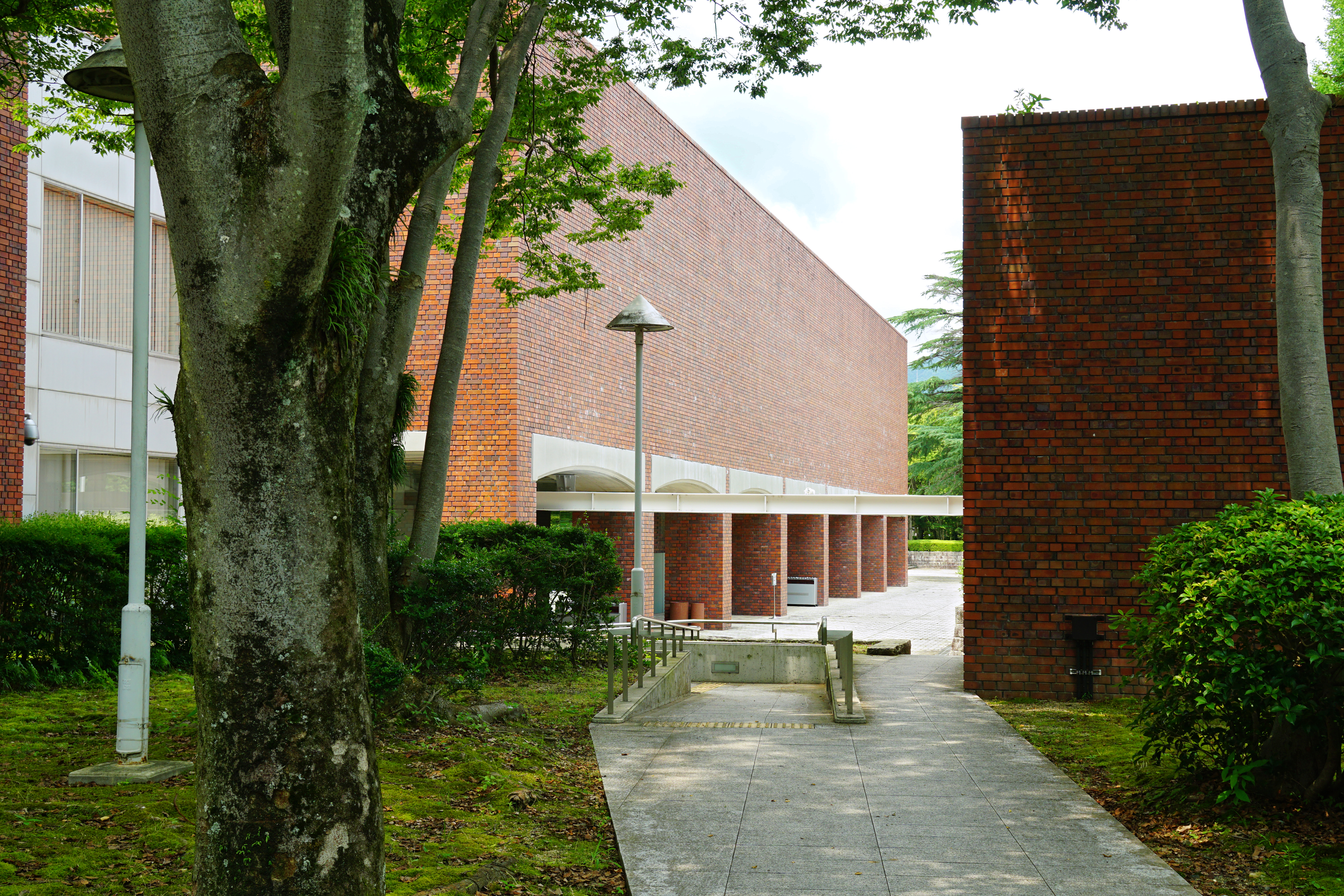 Yamaguchi Prefectural Art Museum in Yamaguchi, Yamaguchi prefecture, Japan.